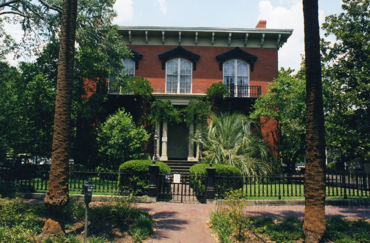 Mercer House, Savannah, Georgia.